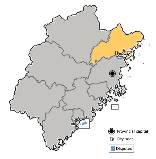 The prefecture-level city of Ningde is highlighted on this map of Fujian province, People's Republic of China.